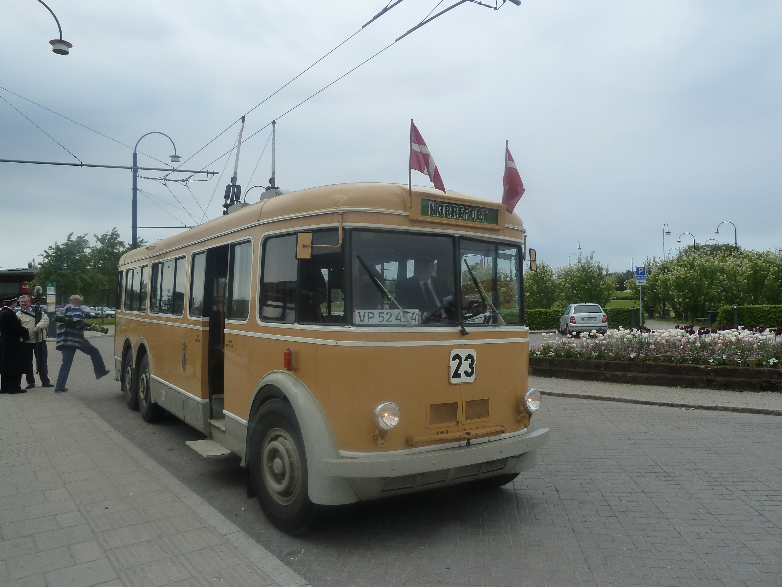 KS 101, an old trolleybus from Copenhagen (København), at Landskrona Station. No. 101 was built in 1938 and has a Leyland TTB4 chassis, General Electric propulsion, and a body built by its operator, København Spoorveje (KS). It visited the Landskrona trolleybus system for a special trolleybus event in May 2011. It normally resides at the Skjoldenæsholm Tramway Museum, in Denmark.